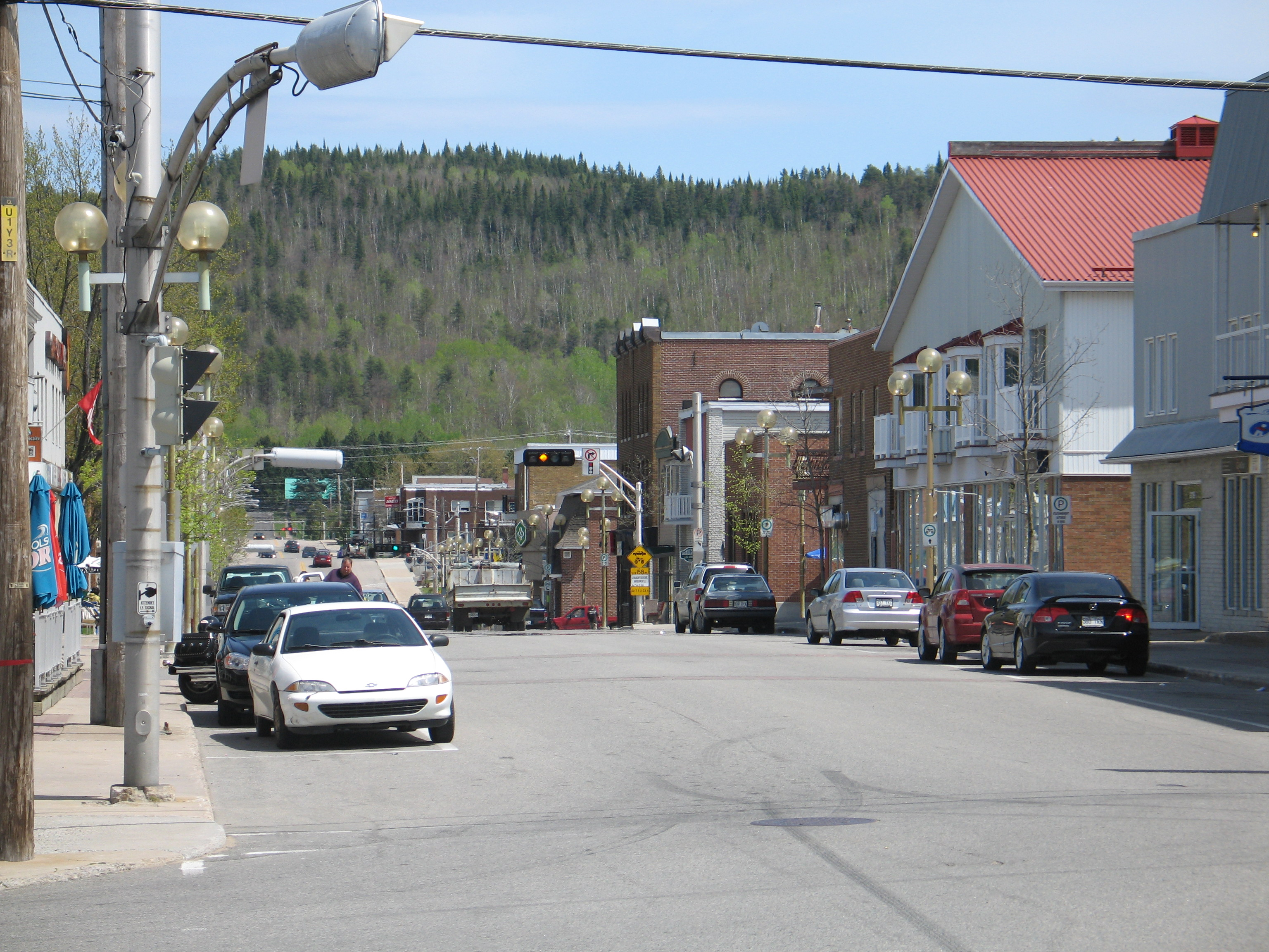 Downtown La Tuque, Québec.